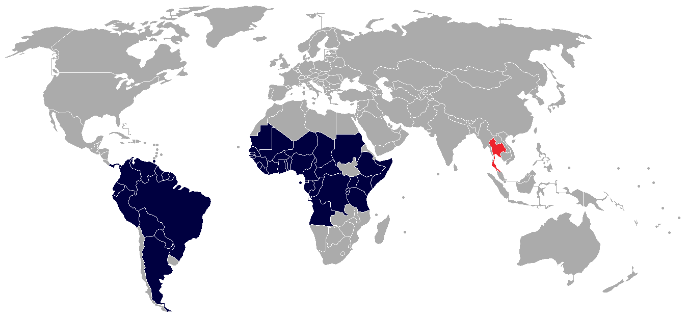 Mandatory yellow fever vaccination for Thailand